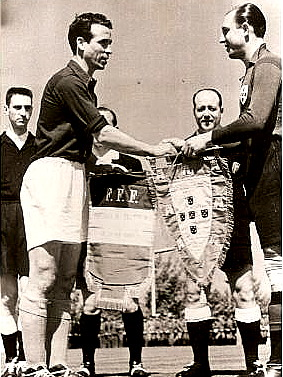 Picture of match about of two nationals teams B of soccer, in Lisbonne, (France and Portugal), 13th, 1951